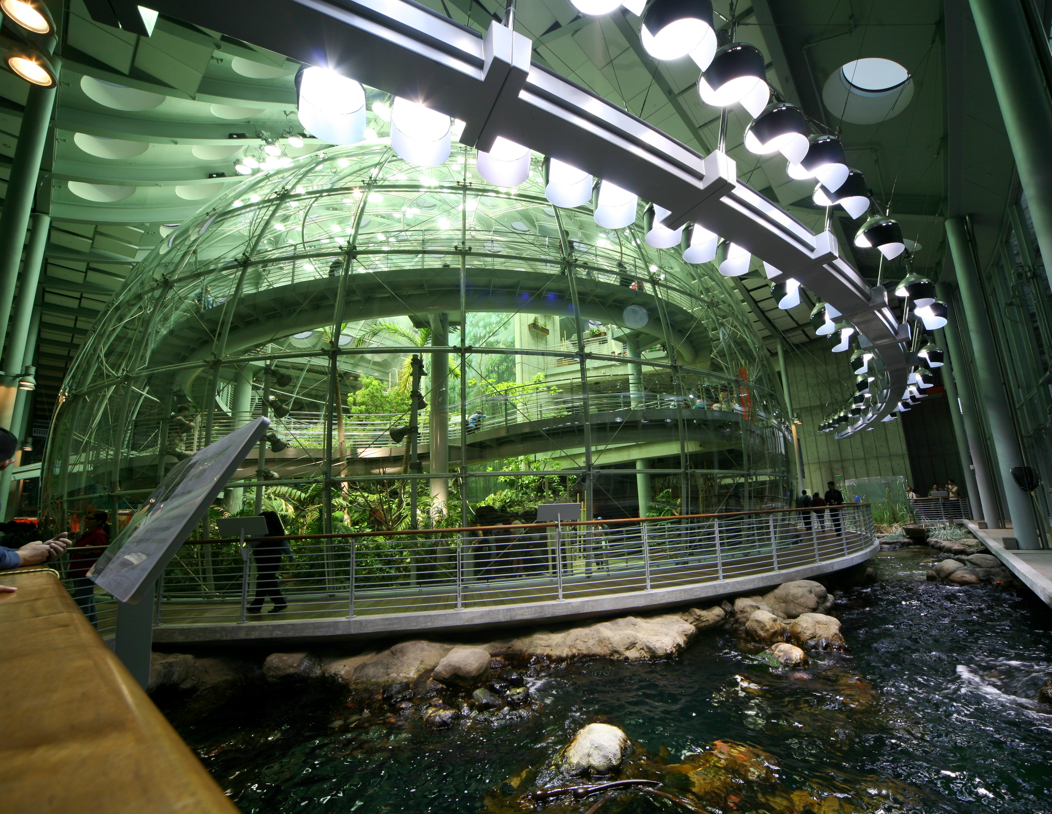 The enclosed rainforest at the California Academy of Sciences